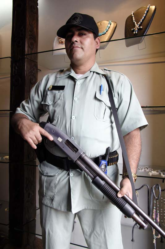 Antigua Guatemala: armed guard stands at the entrance of a jewelry store.